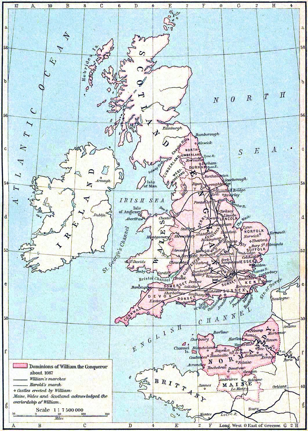 Dominions of William the Conqueror around 1087